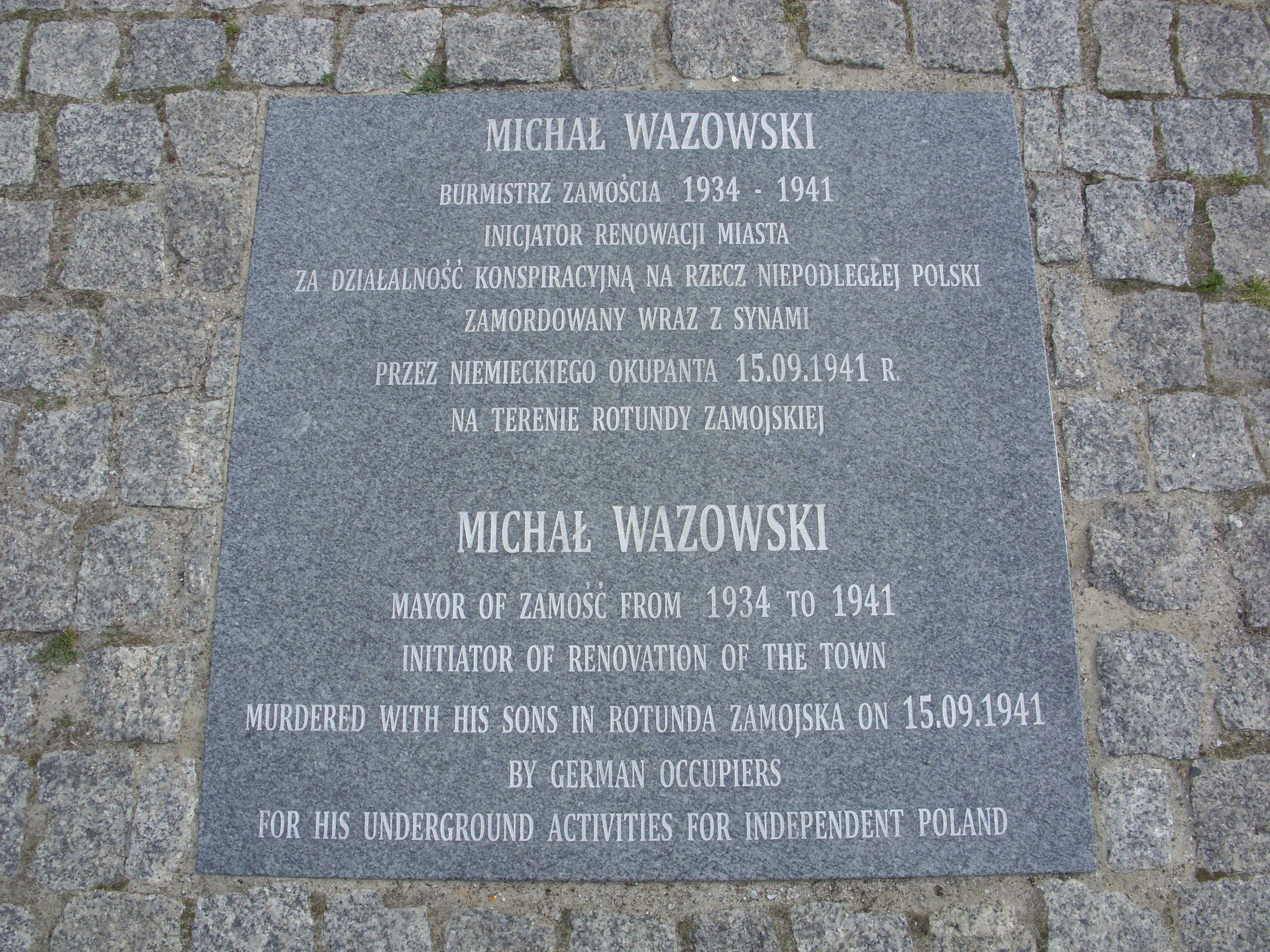 Michał Wazowski, the mayor of Zamość, murdered together with his two sons in the German camp Gestapo Rotunda Zamojska 15.09.1941.